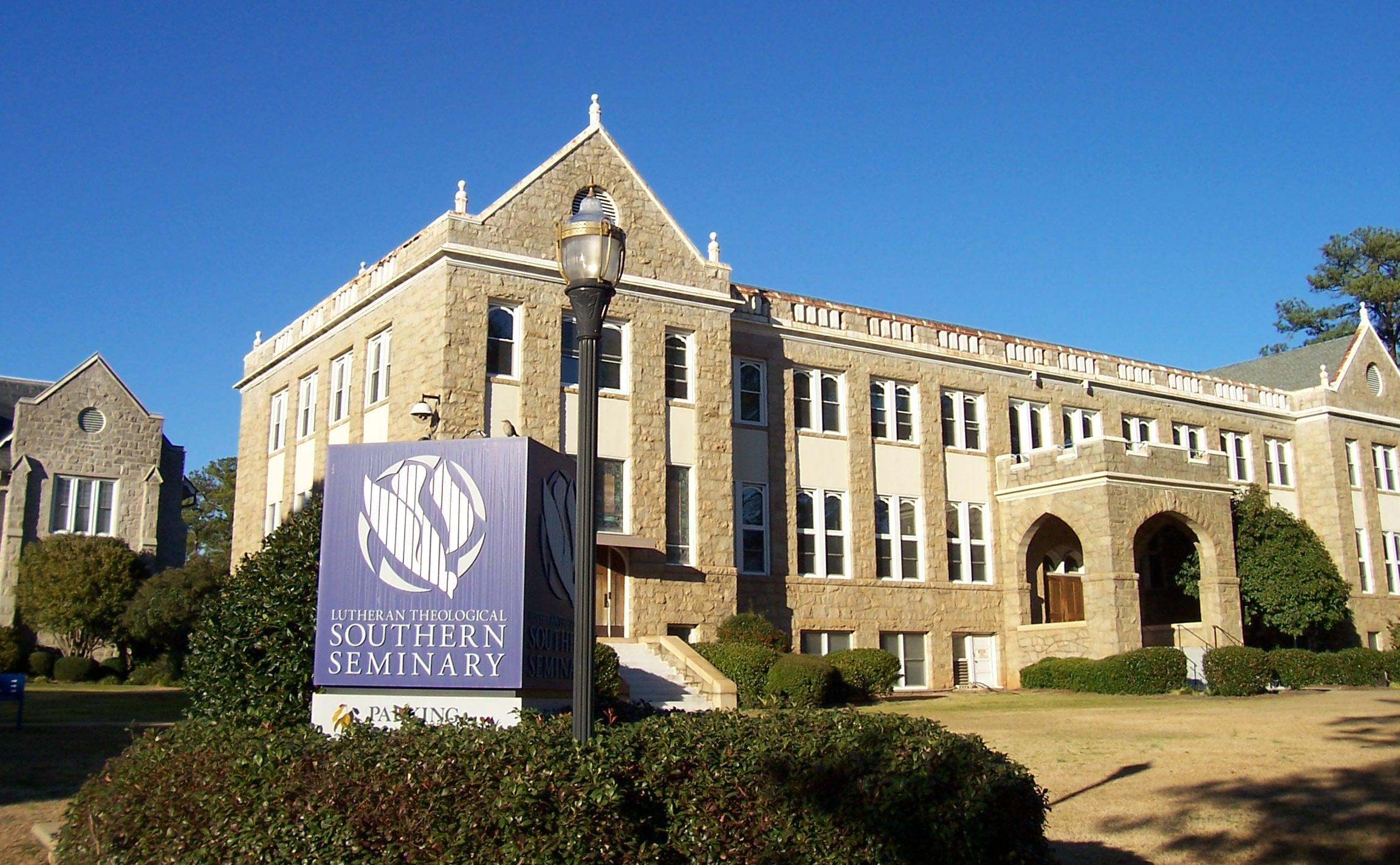 Beam Hall at Lutheran Theological Southern Seminary. Beam Hall is the original building of LTSS, and is built on the highest point in Columbia, South Carolina. Note the little bird atop the sign. It was unconcerned with my presence, and didn't fly away during the three or four minutes it took me to get this shot.